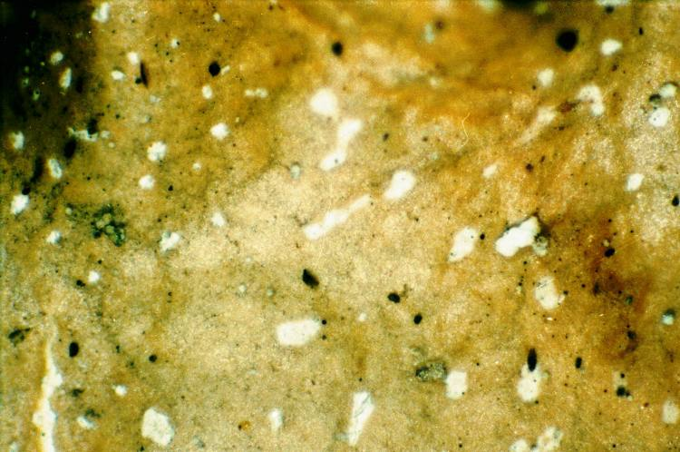 Cetrelia cetrarioides (Duby) W.L. Culb. & C.F. Culb. (herbarium specimen) (close-up photograph showing white pseudocyphellae on the upper surface of a lobe, photographed through a dissecting microscope, x40); growing on the trunk of an oak, Owings Mills, Baltimore County, Maryland, USA; collected and identified by Elmer G. Worthley (No. LH-259); specimen is in the Lichen Herbarium of the New York Botanical Garden.